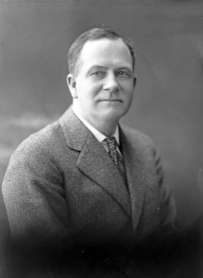 Representative J. C. Hubbell, 1917